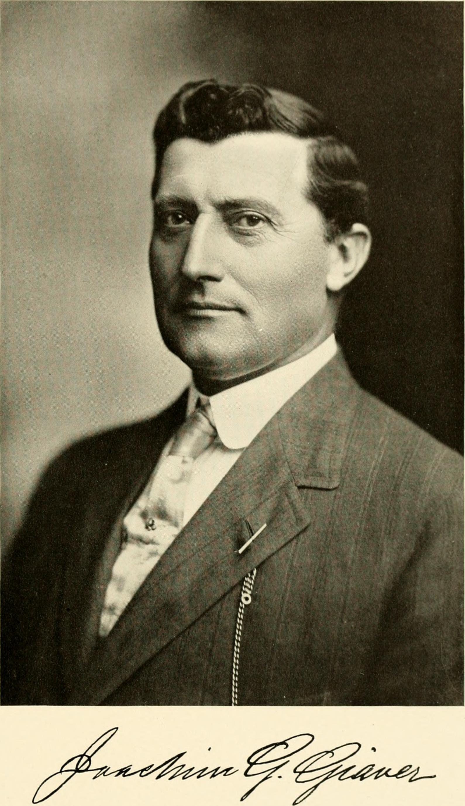 Title: Historical review of Chicago and Cook county and selected biography. A.N. Waterman ... ed. and author of Historical review Year: 1908 (1900s) Authors: Waterman, Arba N. (Arba Nelson), 1836-1917 Subjects: Chicago (Ill.) -- History Chicago (Ill.) -- Biography Cook County (Ill.) -- History Cook County (Ill.) -- Biography Publisher: Chicago, New York, The Lewis publishing company Text Appearing Before Image: eer of the Worlds Columbian Exposition, D. H.Burnham. J. G. Giaver comes of an old Norwegian family, which originatedin Germany, while his mothers people (the Holmboes) constituteone of the strongest and most ancient of pure Norwegian families,its record dating back for hundreds of years. Mr. Giaver himselfwas born at Gjovig, Norway, on the 15th of August, 1856, the sonof Jens Holmboe and Hanna Birgette (Holmboe) Giaver. He ob-tained the foundation of his education through private tutors at home,and his technical training at the Technical College of Throndhjem,Norway, graduating from the latter in 1881. Mr. Giaver arrived in America in the spring of 1882, and firstworked as draftsman in the bridge department of the NorthernPacific Railroad Company at St. Paul, Minnesota, filling that positionuntil the fall of 1883, when he became connected with the ShifSerBridge Company, of Pittsburg, and by the spring of 1885 had beenadvanced to the head of the engineering department of that concern. Text Appearing After Image: '